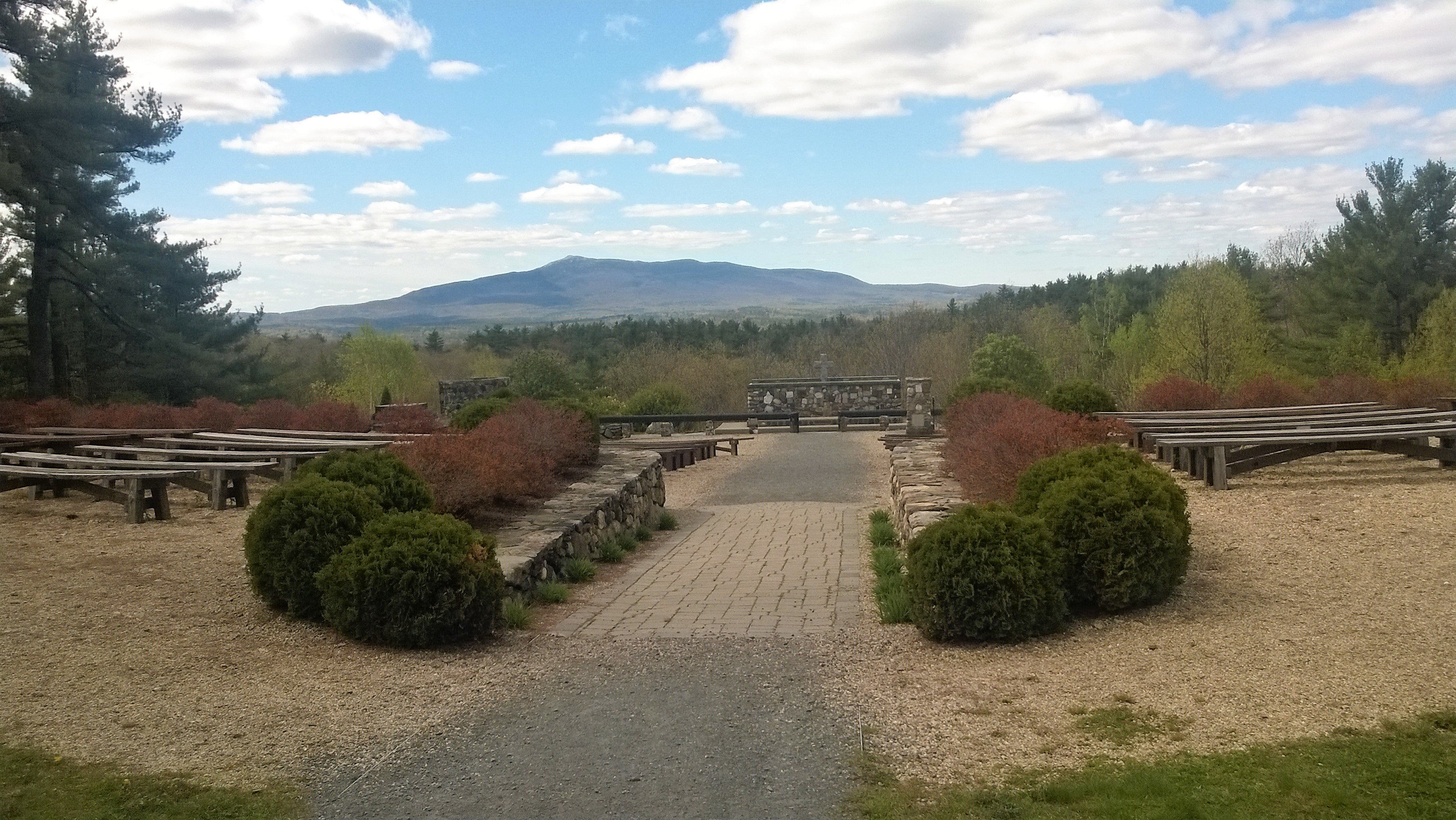 View from the main sanctuary of the Cathedral of the Pines, in Rindge, New Hampshire, looking out at Mount Monadnock.